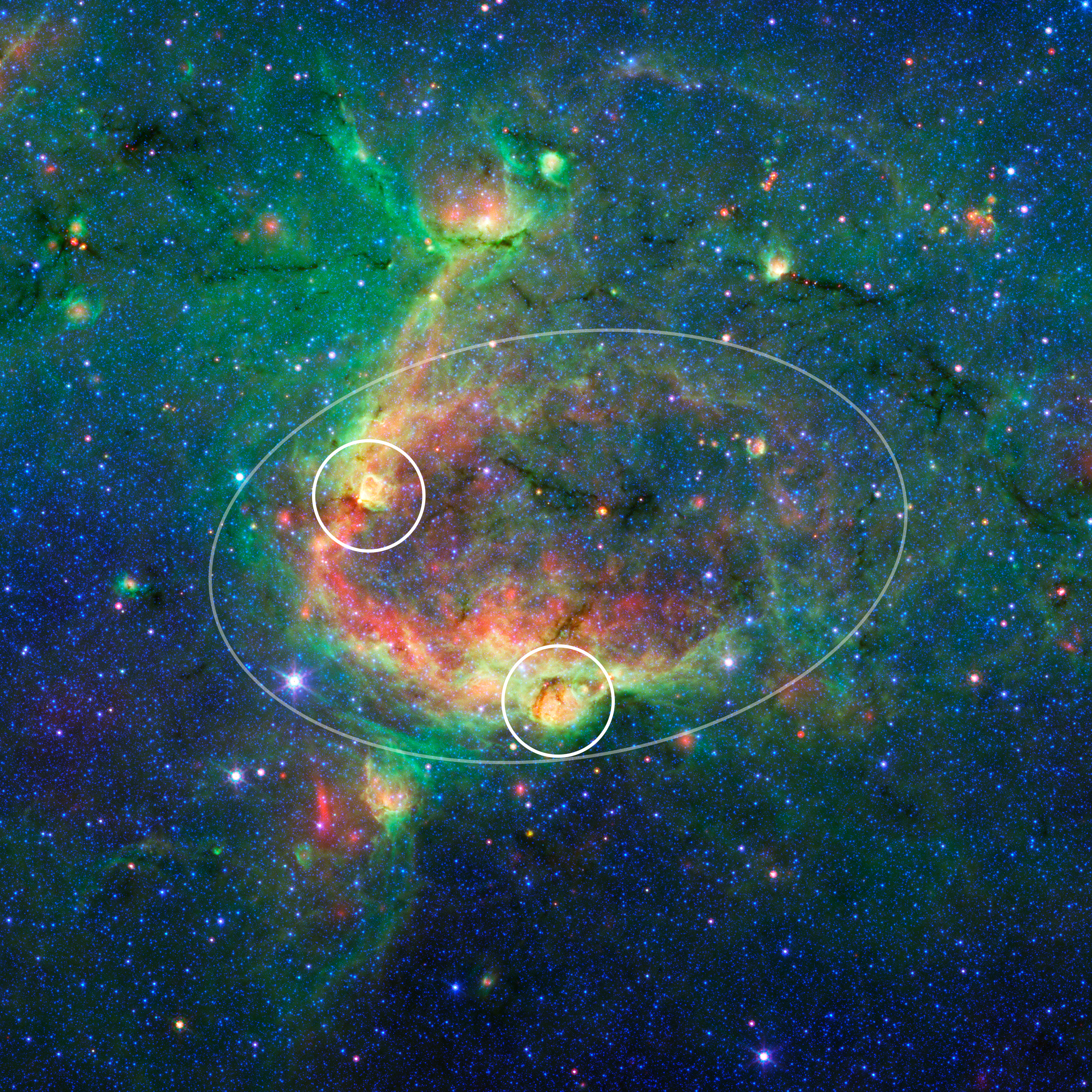 This infrared image shows a striking example of what is called a hierarchical bubble structure, in which one giant bubble, carved into the dust of space by massive stars, has triggered the formation of smaller bubbles. The large bubble takes up the central region of the picture while the two spawned bubbles, which can be seen in yellow, are located within its rim. NASA's Spitzer Space Telescope took this image in infrared light. The multiple bubble family was found by volunteers participating in the Milky Way Project ( This citizen science project, a part of the Zooniverse group, allows anybody with a computer and an Internet connection to help astronomers sift through Spitzer images in search of bubbles blown into the fabric of our Milky Way galaxy. The bubbles are formed by radiation and winds from massive stars, which carve out holes within surrounding dust clouds. As the material is swept away, it is thought to sometimes trigger the formation of new massive stars, which in turn, blow their own bubbles. The images in the Milky Way project are from Spitzer's Galactic Legacy Infrared Mid-Plane Survey Extraordinaire, or Glimpse, project, which is mapping the plane of our galaxy from all directions. As of June 2013, 130 degrees of the sky have been released. The full 360-degree view, which includes the outer reaches of our galaxy located away from its center, is expected soon.